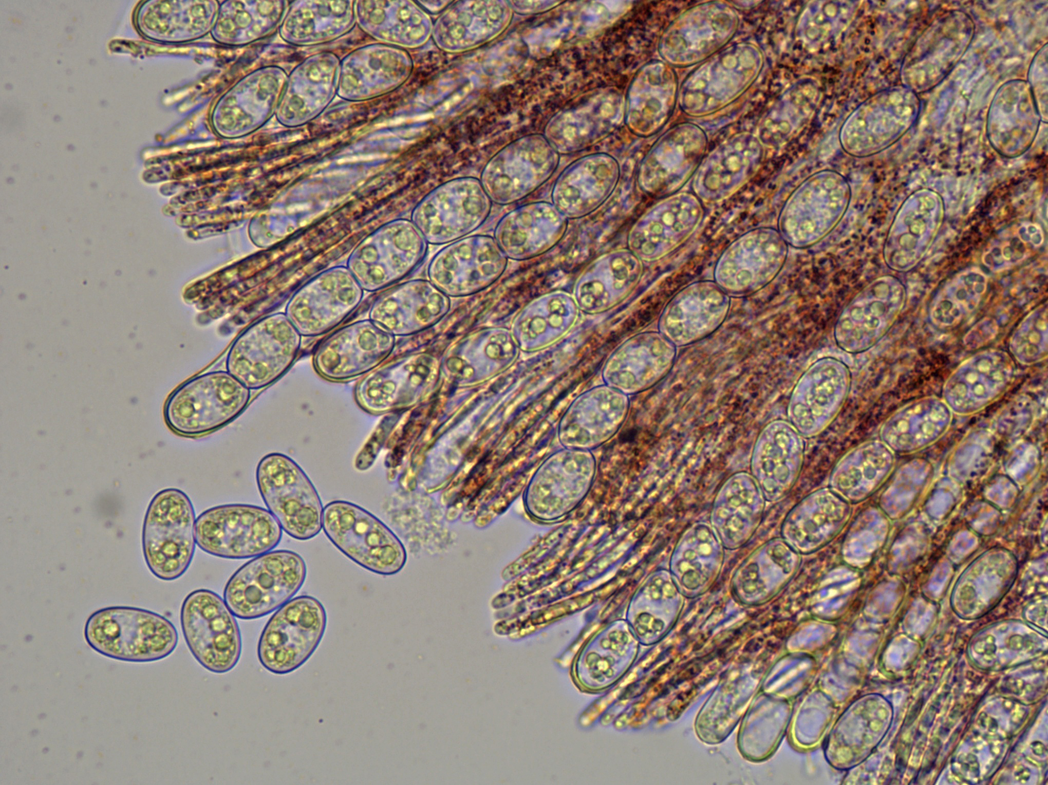 Micrograph showing asci and spores of the cup fungus Sarcoscypha occidentalis (Schwein.) Sacc.